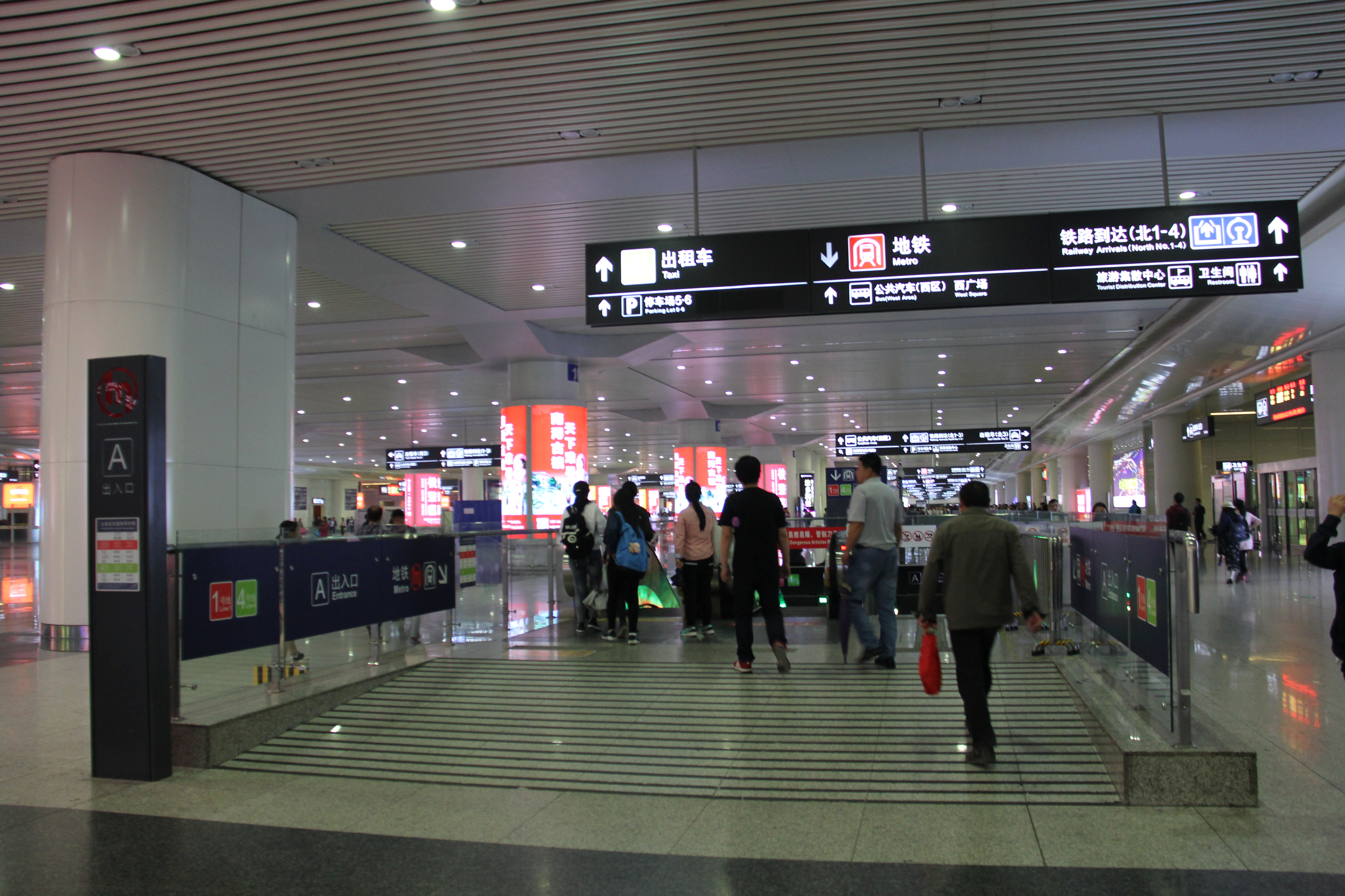 201605 Entrance A for HZMTR East Railway Station at Hangzhoudong Railway Station